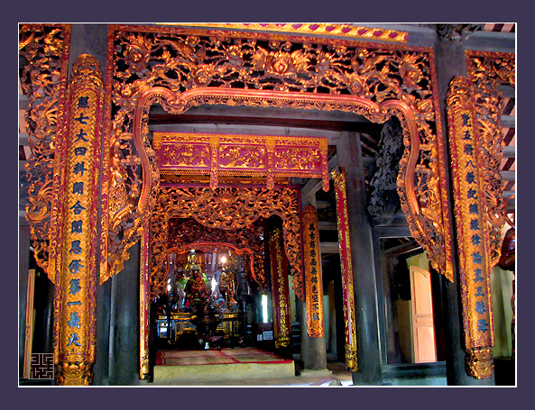 Con Son Pagoda in Hai Duong Province, Vietnam